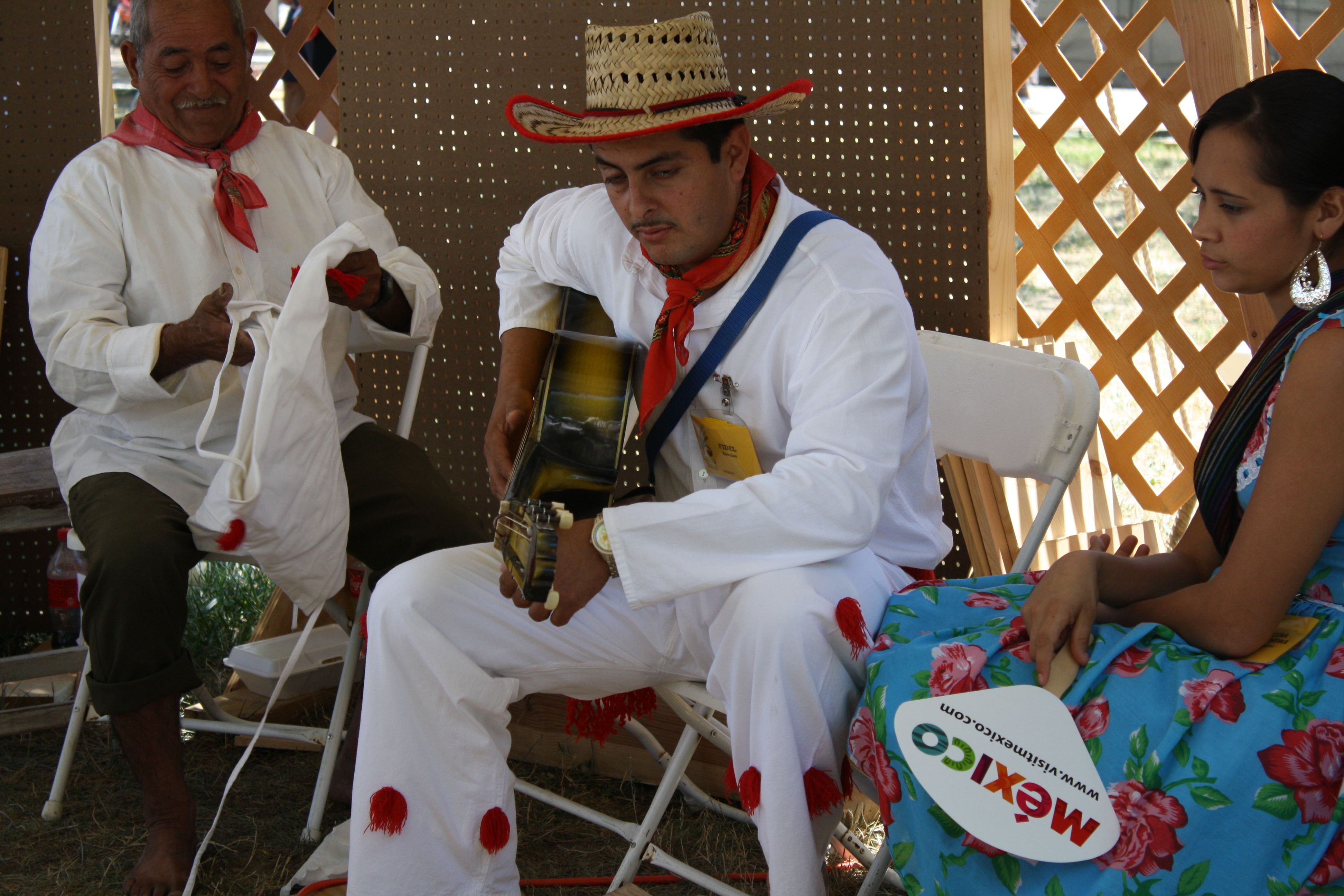 Independence Weekend at 44th Annual Smithsonian Folklife Festival on National Mall in Washington DC on Saturday afternoon, 3 July 2010 by Elvert Barnes Photography Mariachi Tradicional Los Tíos The Mariachi Tradicional Los Tíos from El Manguito, a remote community in the Sierra Madre Occidental Mountains of Jalisco, boast a son repertoire distinctive to this region where mariachi music has flourished for more than 150 years. Mayra Alejandra Hernández Salcedo, dancer, cook Gustavo Salcedo Gutiérrez, vihuela, mechanic Salvador Salcedo Sánchez, guitarrón, carpenter Héctor Uribe Castillo, dancer, blacksmith Juan Zavalza Sánchez, violin, carpenter Fidel Zavalza Lepe, guitar, carpenter MEXICO Program / La Casa de la Música Visit Elvert Barnes 44th Smithsonian Folklife Festival 2010 docu-project at